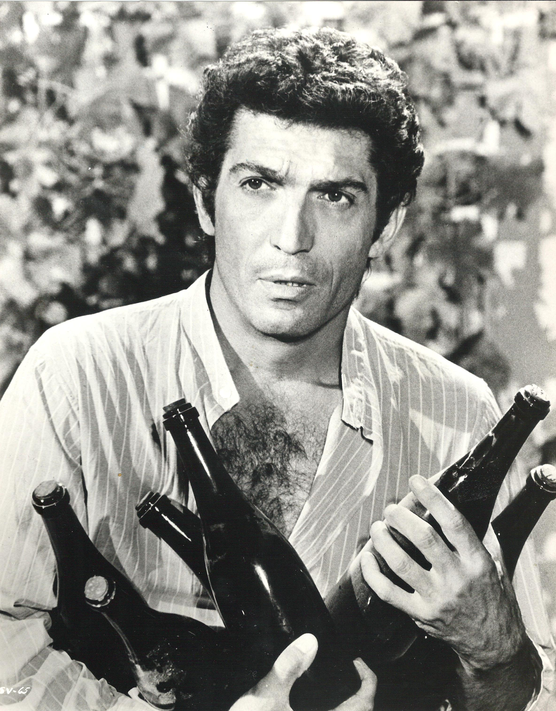 Sergio Franchi as Tufa: Hiding the Wine